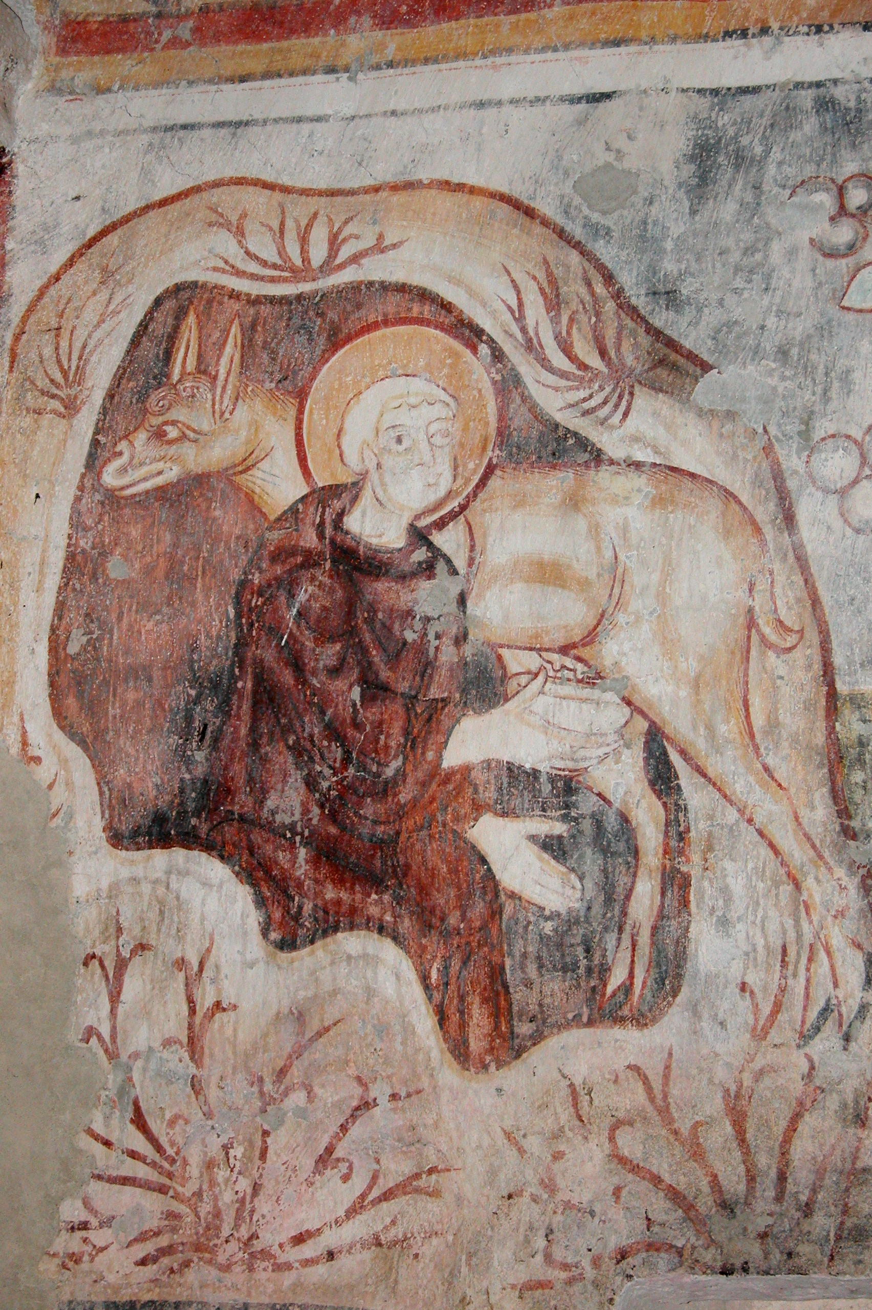 Church St. Rupert in Weißpriach Lungau/Austria - Romanesque frescos: The Miracle of Saint Giles I